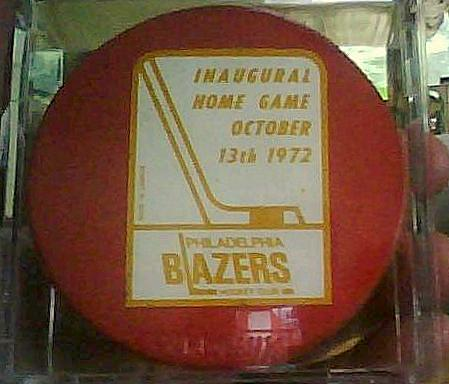 Philadelphia Blazers, WHA, Philadelphia Picture of souvenir puck given out at Philadelphia Blazers' opening home game in October 1972 before the game was canceled due to improperly frozen ice.